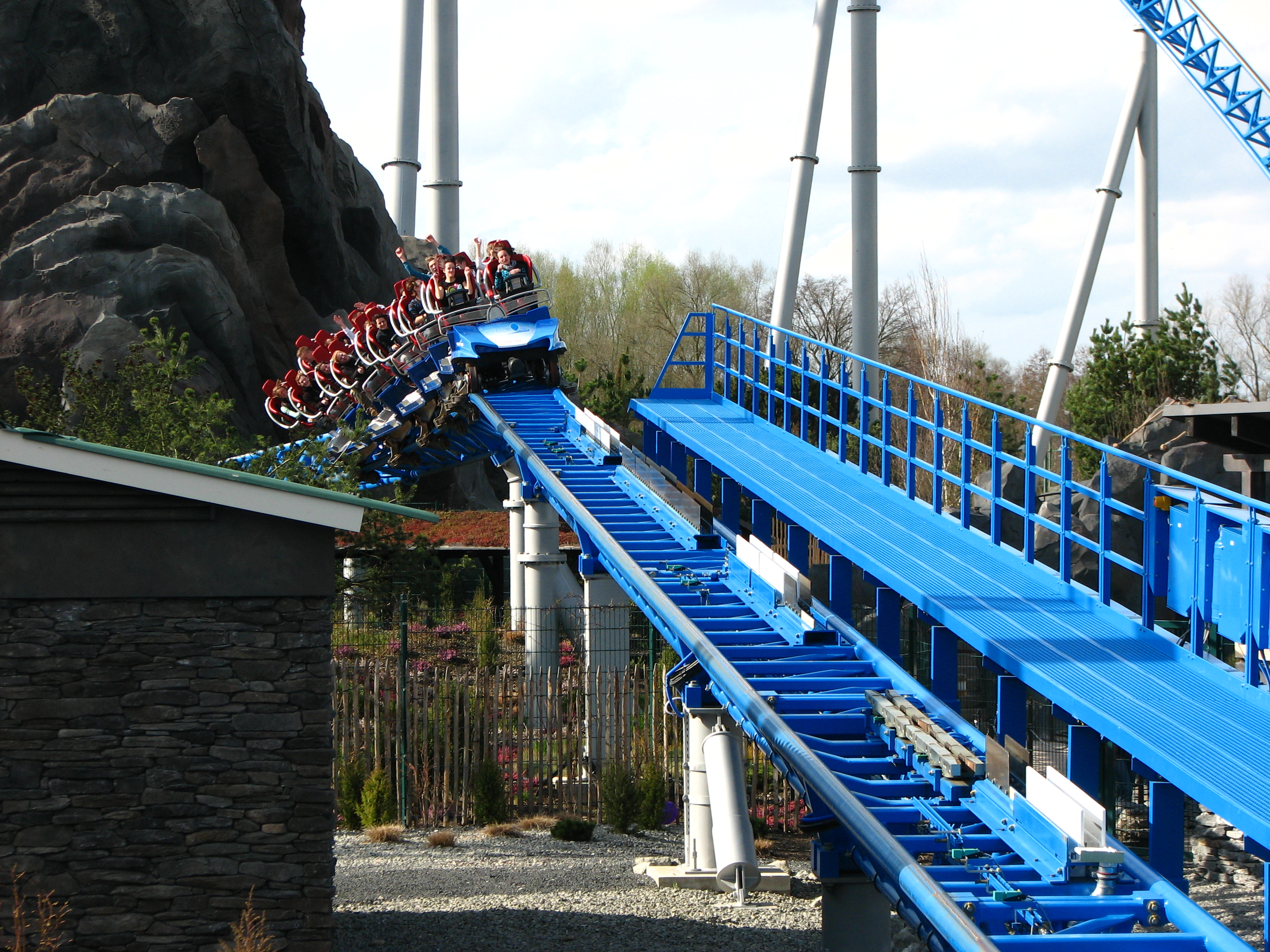 Blue Fire Megacoaster, Europa-Park, Rust, Baden-Württemberg, Germany.